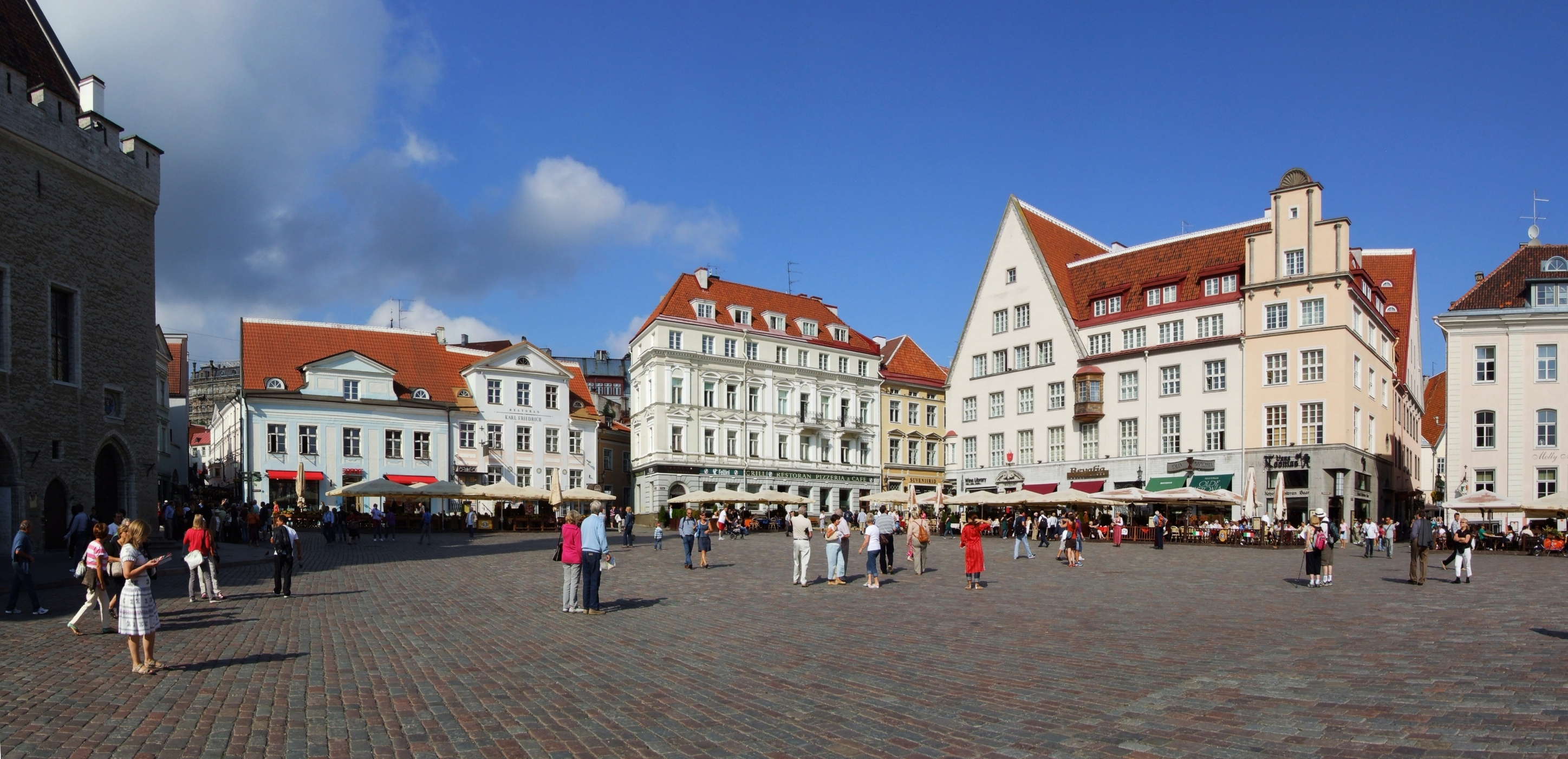 Tallinn - Town Hall Square (Raekoja plats)